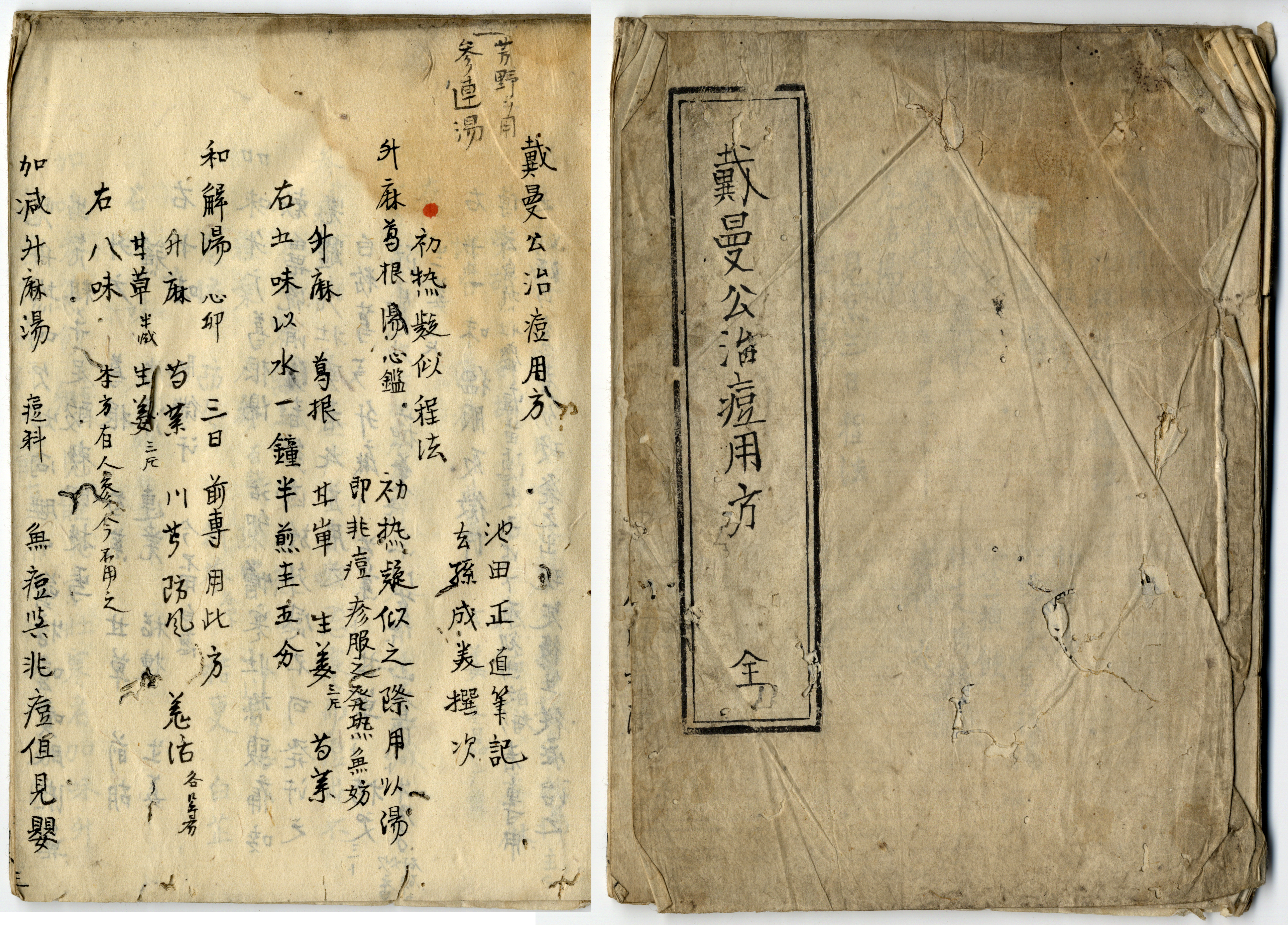 Taimankō chitō yōhō (Daimangong’s formulas for the cure of smallpox). Recorded by Ikeda Seichoku/Masanao（1597−1677), reedited by his grandgrandson Ikeda Narushige. Ms copy, early 19th century. (Collection W. Michel, Fukuoka) Taimankō = Dài Màngōng alias Dokuryū Shōeki (1596−1672)